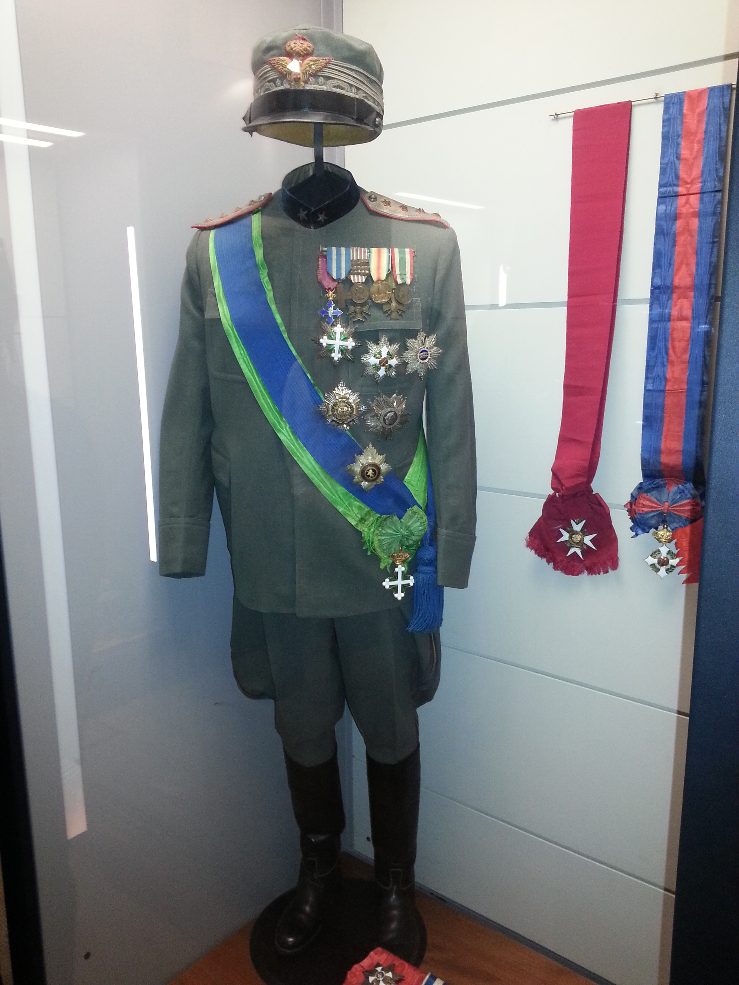 Luigi Cadorna uniform